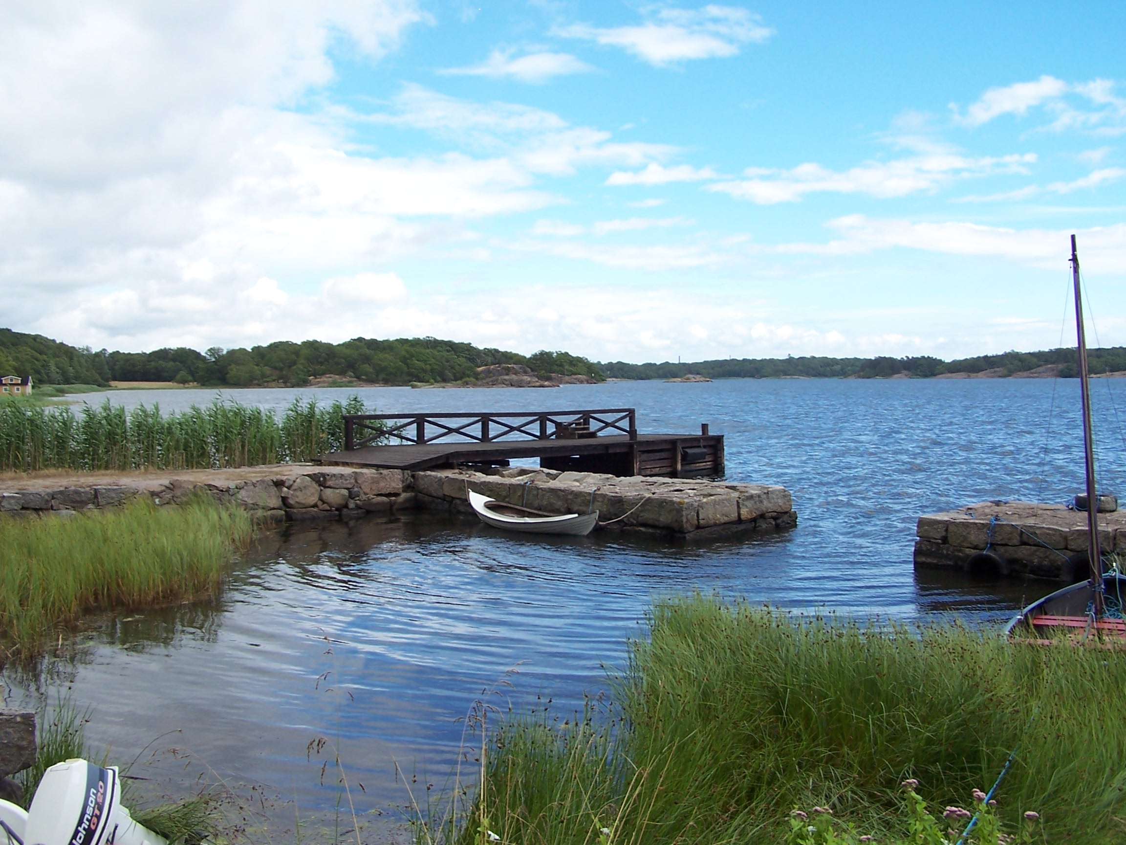 Skärva - Harbour